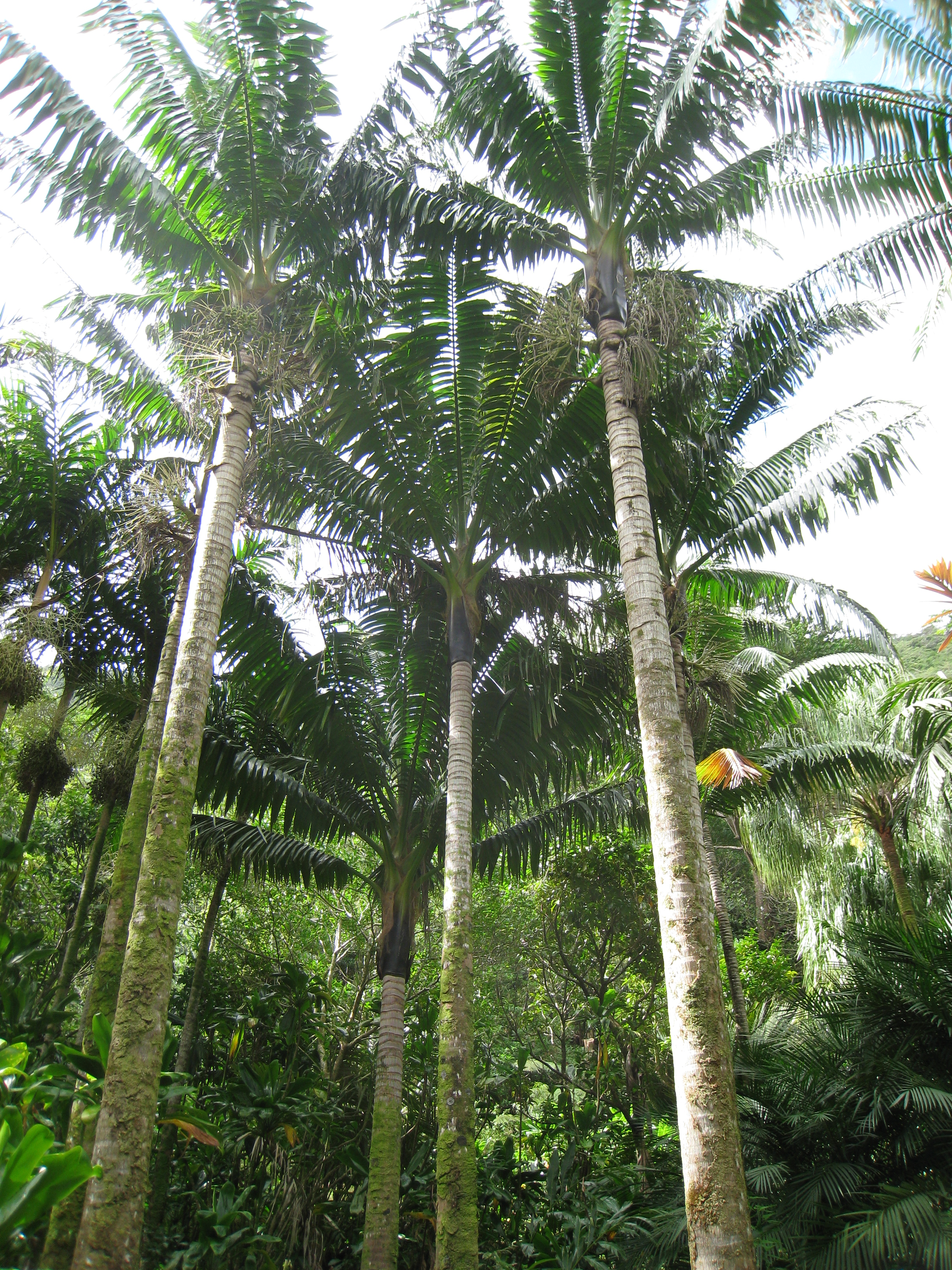 Neoveitchia storckii in Lyon Arboretum, Oahu, Hawaii, USA.